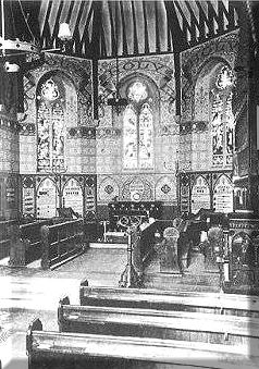 Interior of St Andrews Church, Queens Road, Hastings, completed in 1869 to the design of Matthew Edward Habershon (1828-1900) and consecrated by the Bishop of Chichester in 1870. It was constructed by builder John Howell of Hastings, and decorated inside with a large mural by Robert Tressell in 1904. It was declared unsafe and demolished in 1970.[1] ↑ See history of St Andrews Church, Queens Road, Hastings